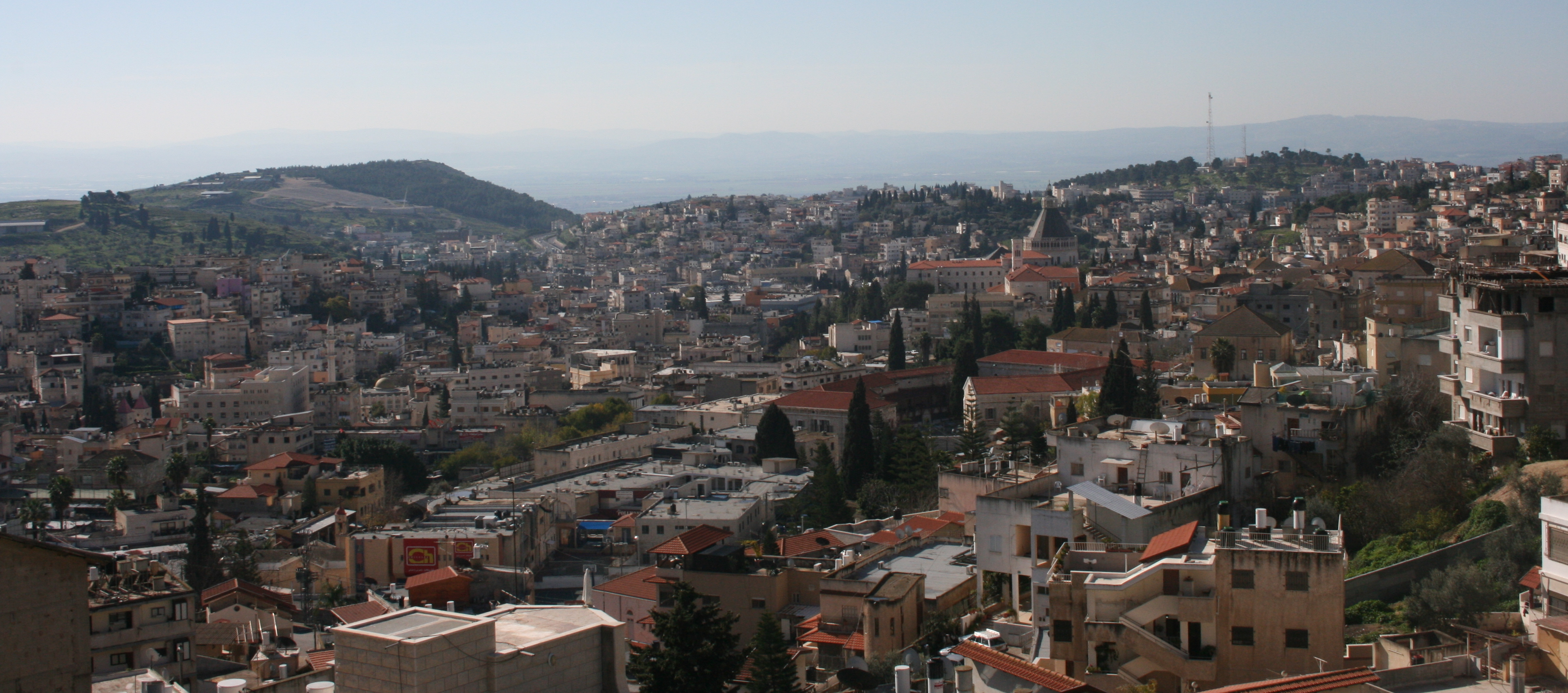 View of the city of Nazareth taken from the El Kishleh neighborhood looking towards the south on a beautiful, sunny, winter day. The hill in the background on the left is known as Jabal al-Moutran, and there is an old Greek Orthodox church at the top. The Basilica of the Annunciation is the large building towards the back-right of the center of the picture.